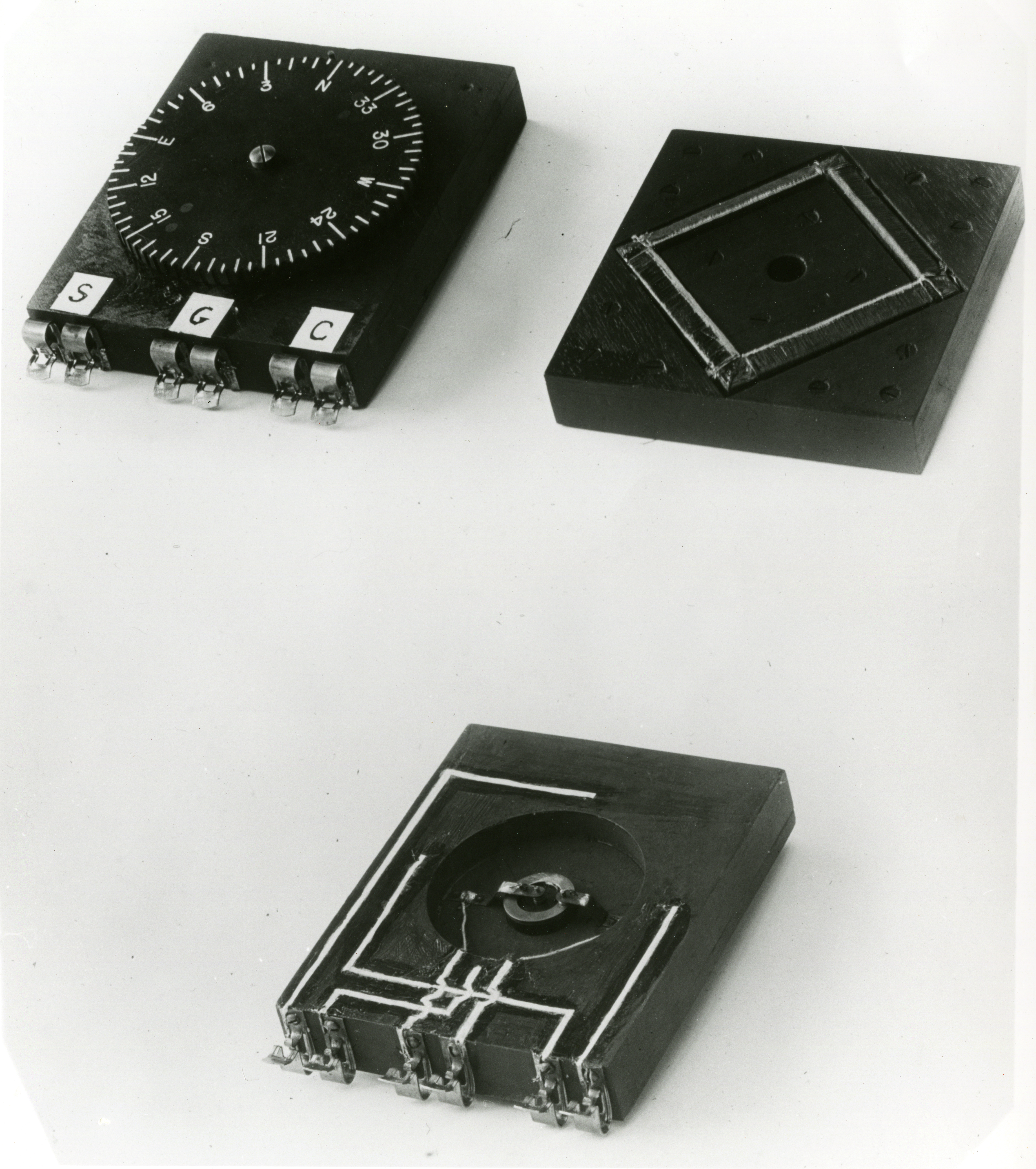 Earth inductor compass